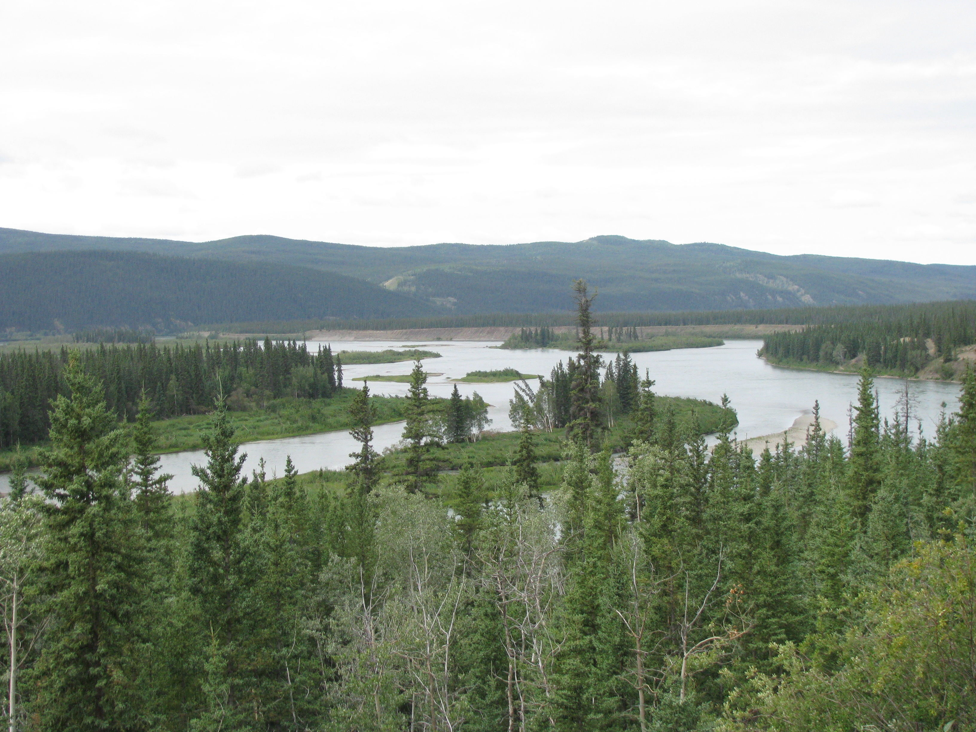 The following is the author's description of the photograph quoted directly from the photograph's Flickr page. "Yukon River from Klondike Loop Highway near Carmacks, Yukon, Canada. Photographed on 10 August 2009. Joint ©© Arthur D. Chapman and Audrey Bendus. "